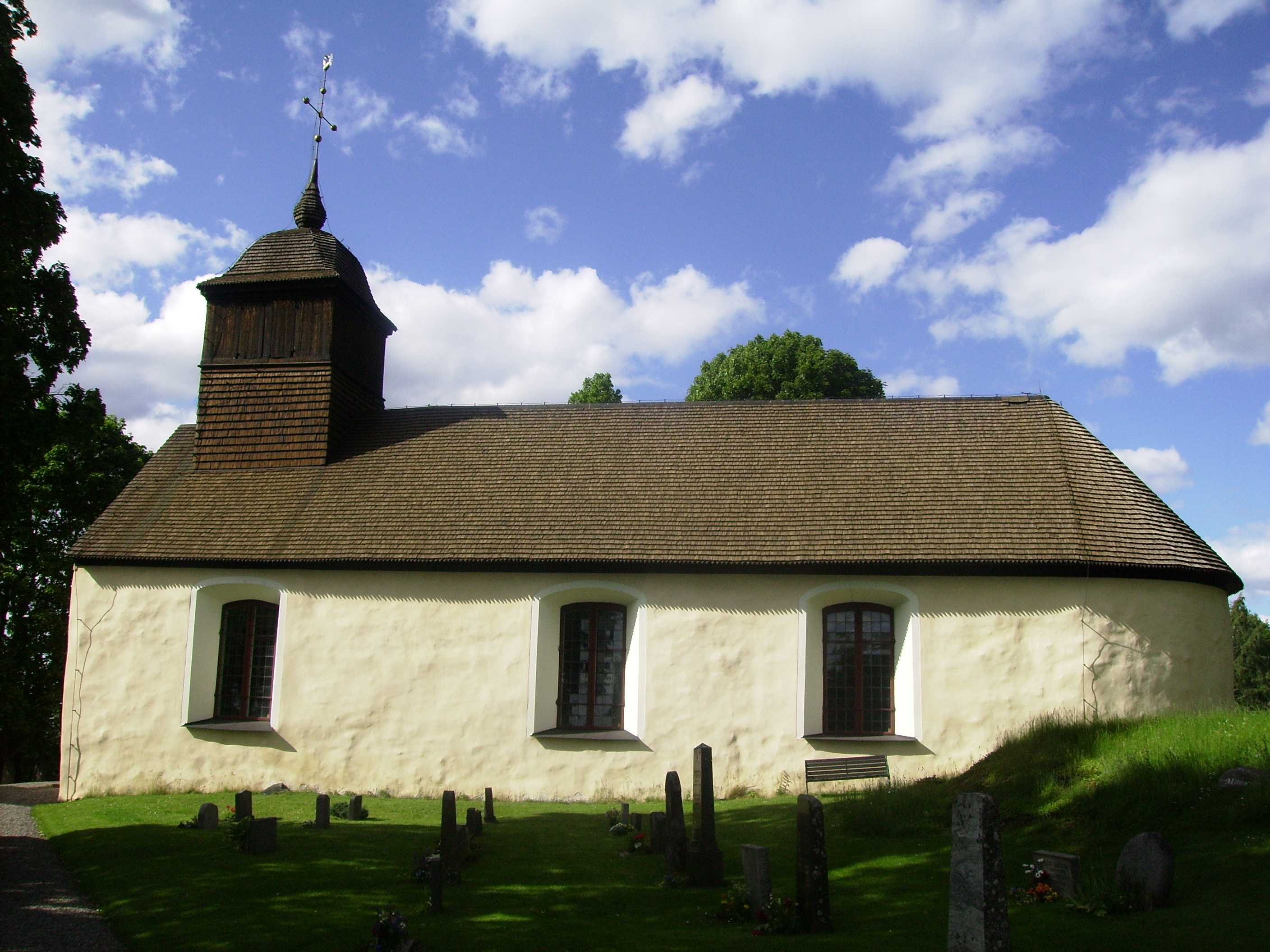 Picture of Dillnäs kyrka, Strängnäs stift